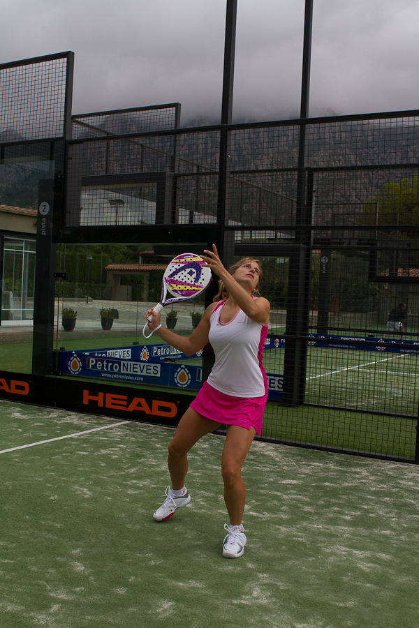 Alejandra